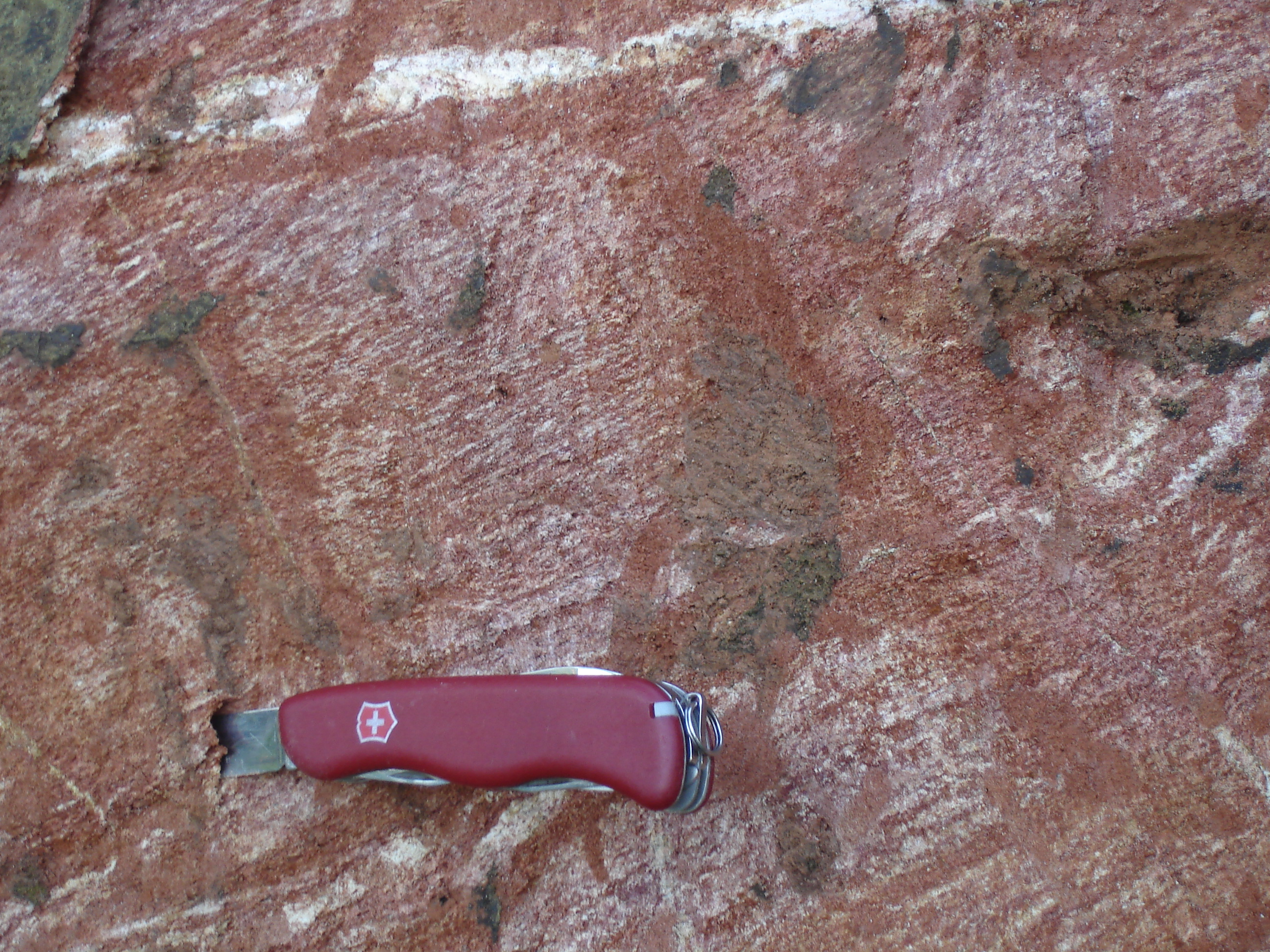 Regolithic soil from granulite rock. It is very argillaceos and preserves the original foliation and other structures of the rock massif. Granulite rock:related Date:31-03-2006 Local: Rio de Janeiro city, Leblon Park, Brazil Author:Eurico Zimbres Free for all use